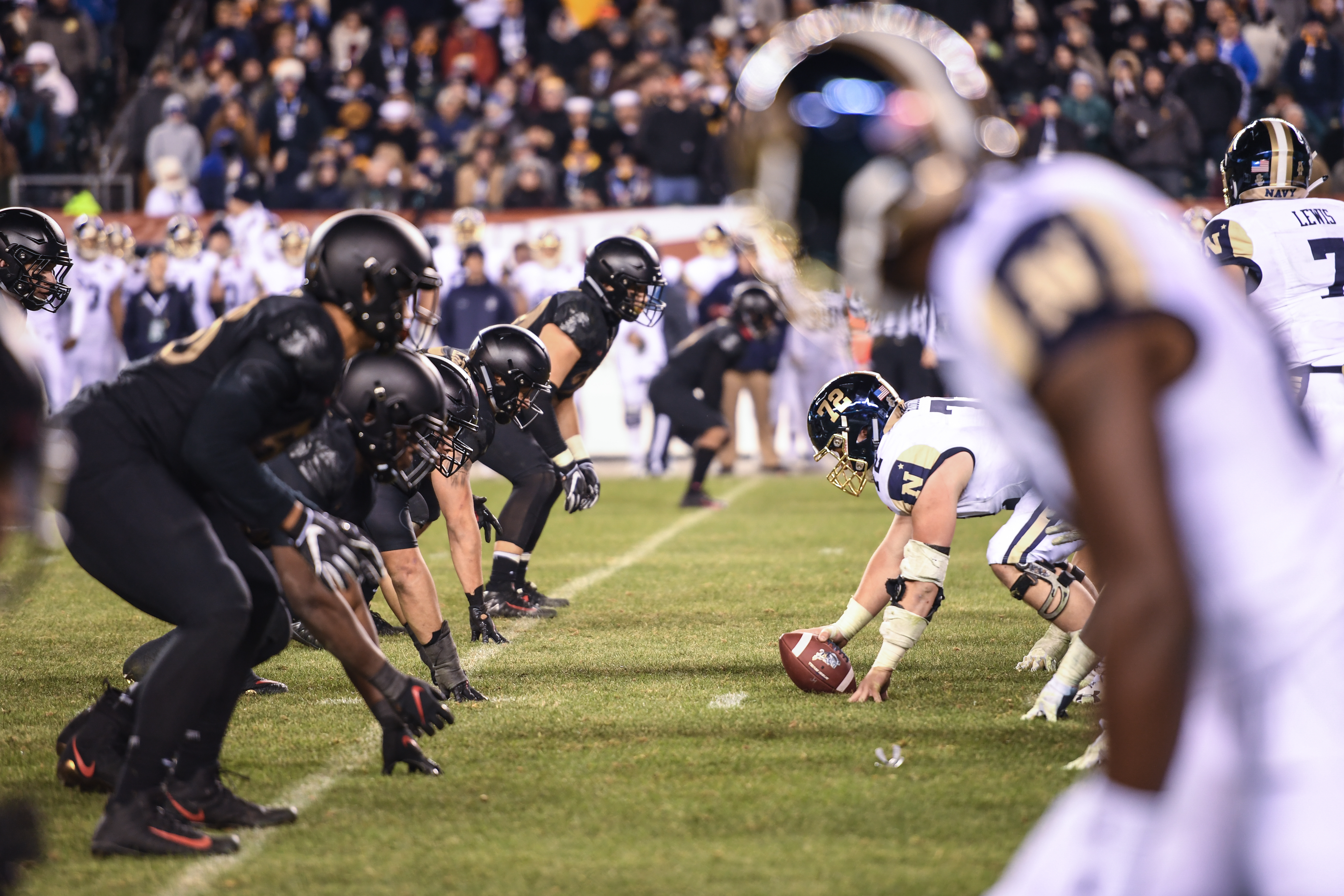 The U.S. Military Academy West Point defensive line prepares for a play during the 119th Army-Navy Game in Philadelphia Dec. 8, 2018. The Army defeated the Navy for the third year in a row. (U.S. Army photo by Spc. Dana Clarke)